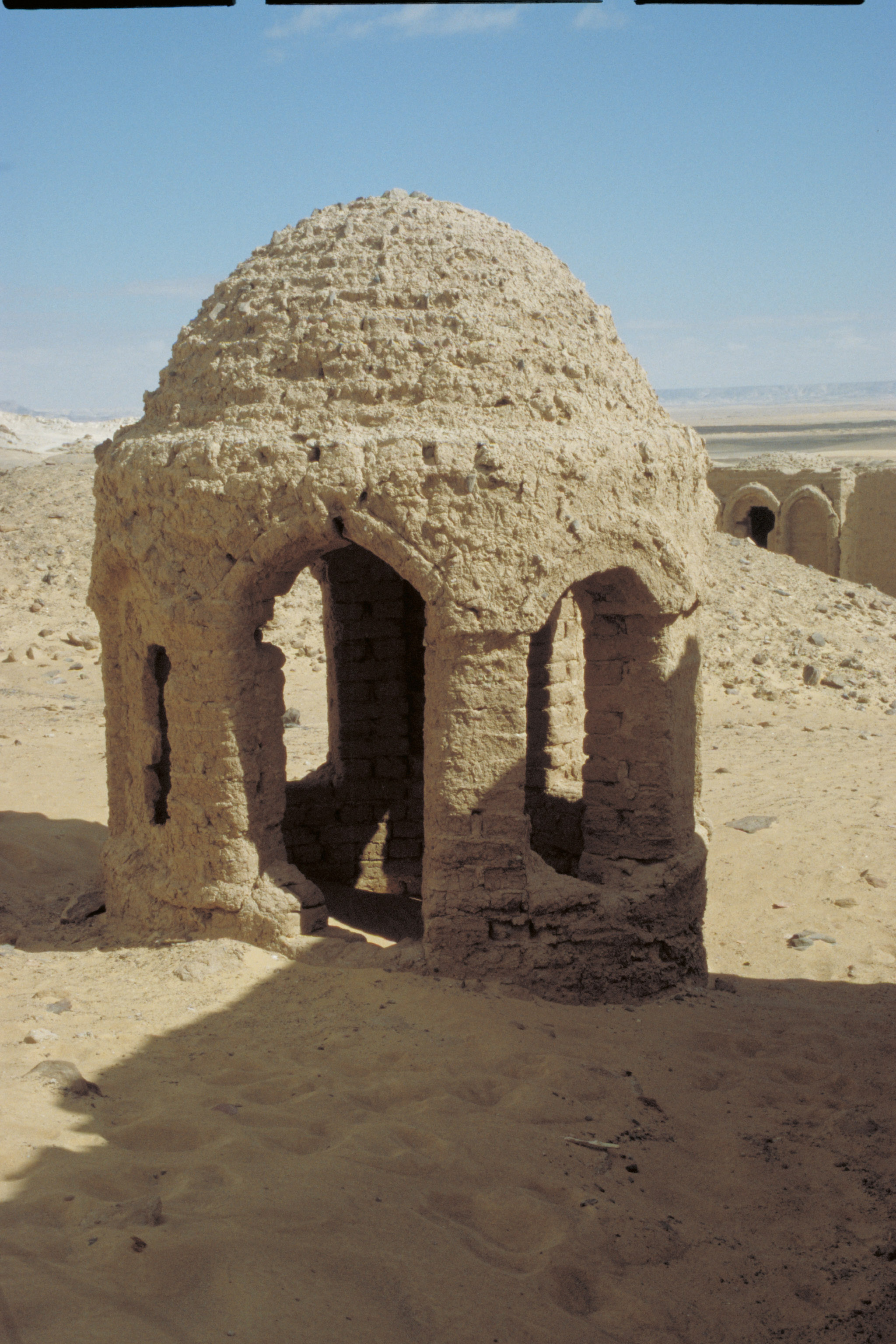 Al-Bagawat, also spelt as El-Bagawat, is an ancient Christian cemetery, one of the oldest in the world, which functioned at the Kharga Oasis in southern-central Egypt from the 3rd to the 7th century AD. It is one of the earliest and best preserved Christian cemeteries in the ancient world.